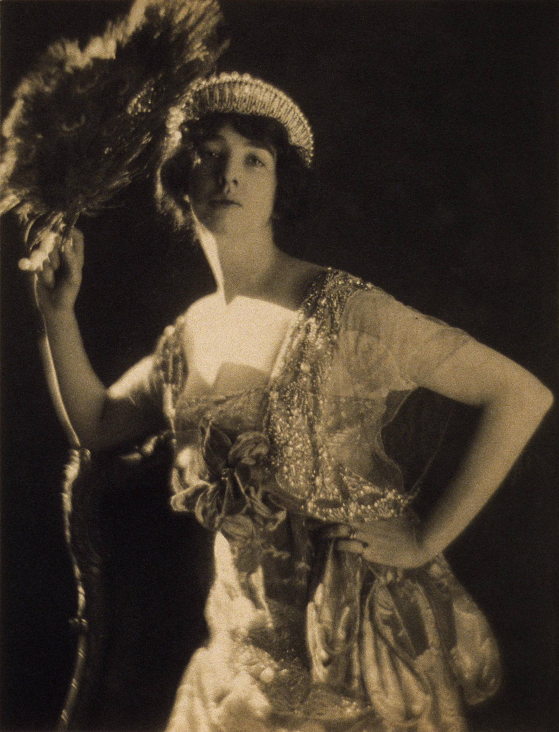 Gertrude Vanderbilt Whitney wearing a jeweled gown and tiara and holding a peacock feather fan.